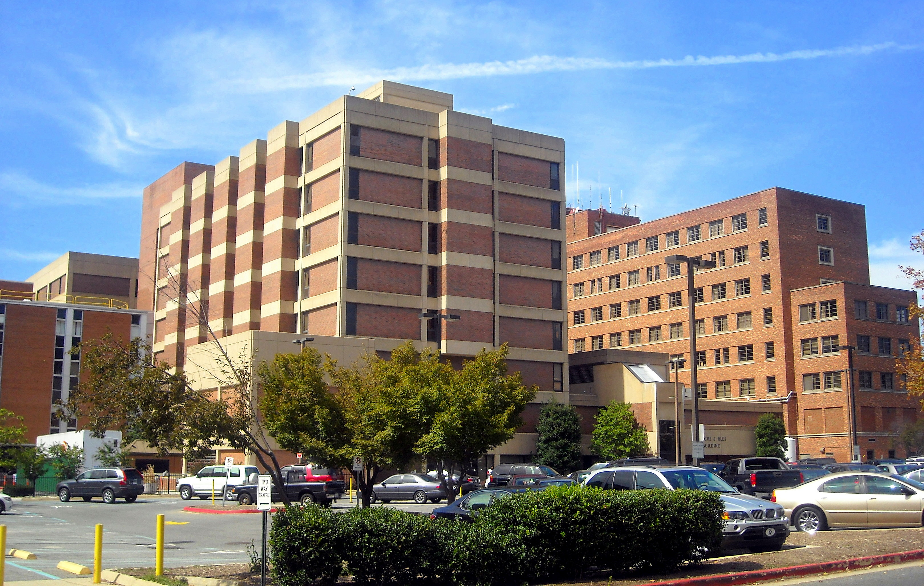 Georgetown University Hospital on the campus of Georgetown University in Washington, D.C. From left to right, the image shows the Gorman Building, the Marcus J. Bles Building, and the Main Building.